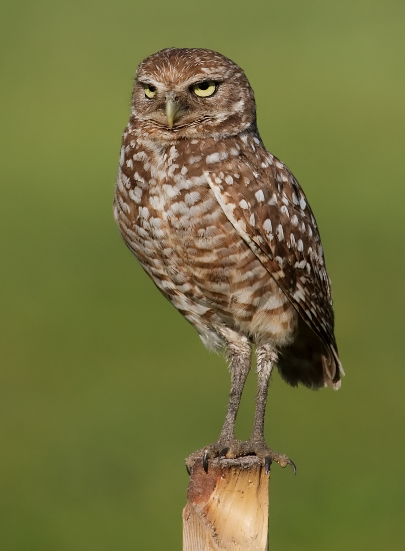 A Burrowing Owl (Athene cunicularia) on the lookout, taken in Pembroke Pines, Florida, USA.